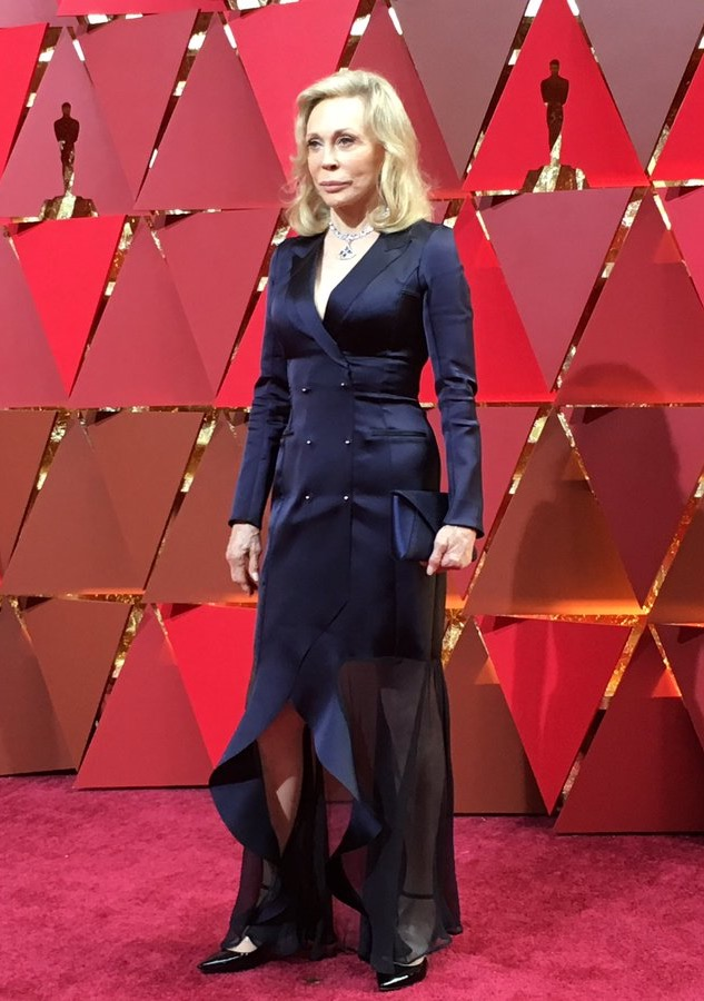 Actress Faye Dunaway on the red carpet at the 2017 Oscars.